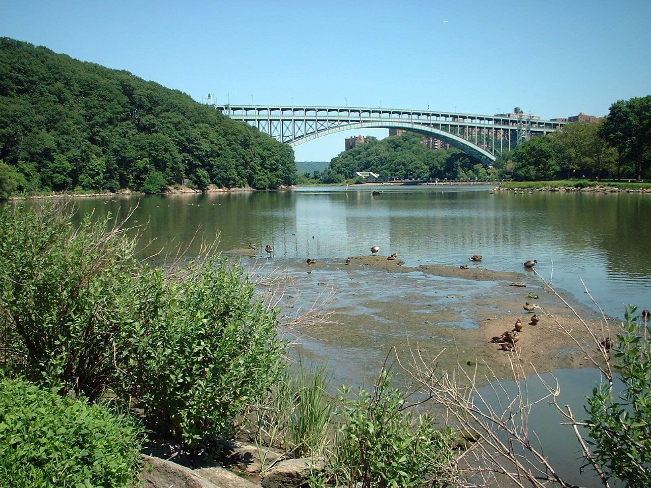 Inwood Hill Park and the Henry Hudson Bridge